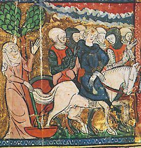 Fernando of Portugal, Count of Flanders, taken as a prisoner to Paris after the battle of Bouvines (27th July 1214), 14th century, Grandes Chroniques de France, Bibliothèque municipale, Castres